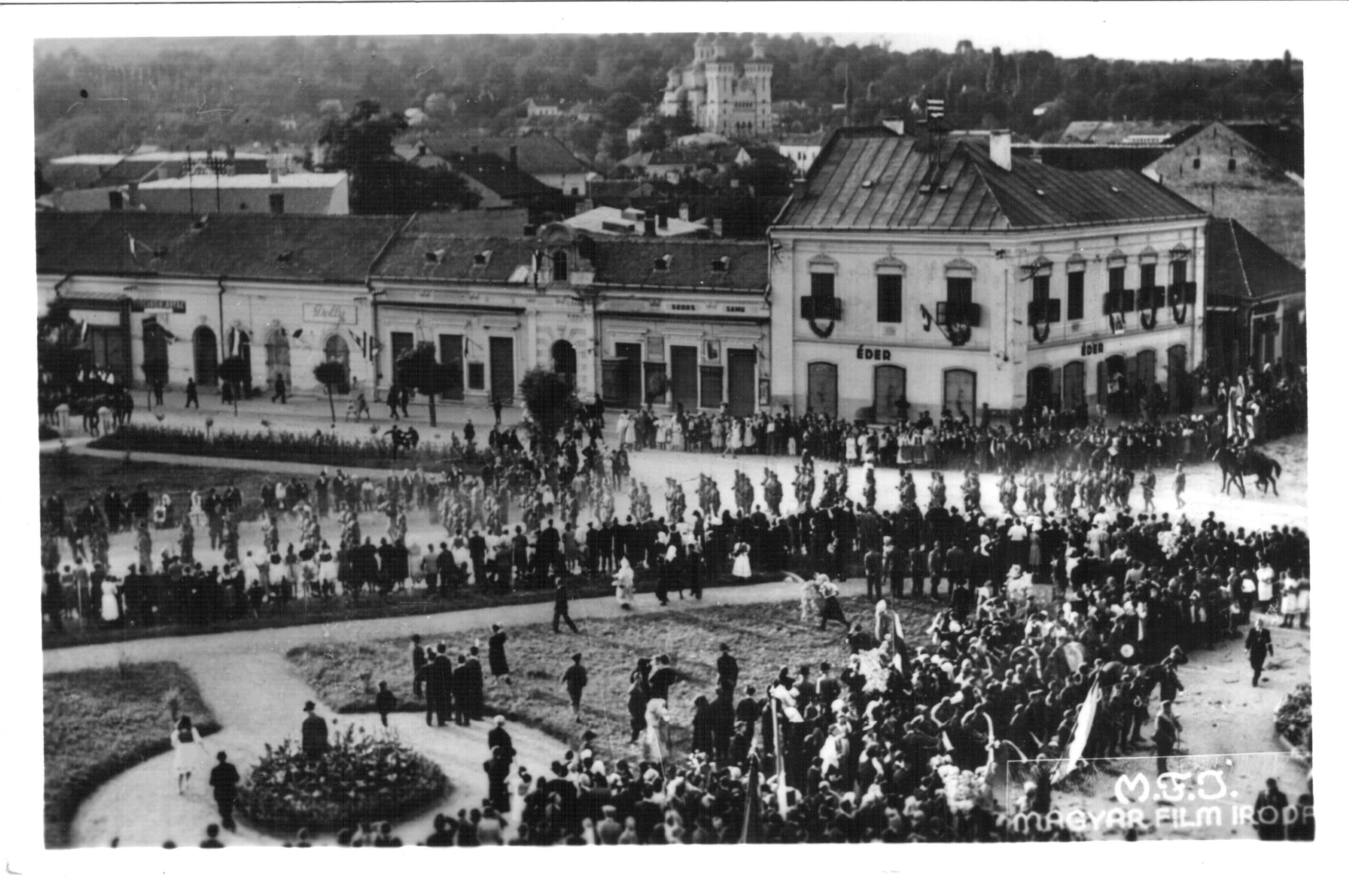 Postcard: Iuliu Maniu Square in Zalău on September 8, 1940: few days after the Second Vienna Award, Hungarian Army troops entering in Zalău. The Assumption Cathedral can be seen in background.